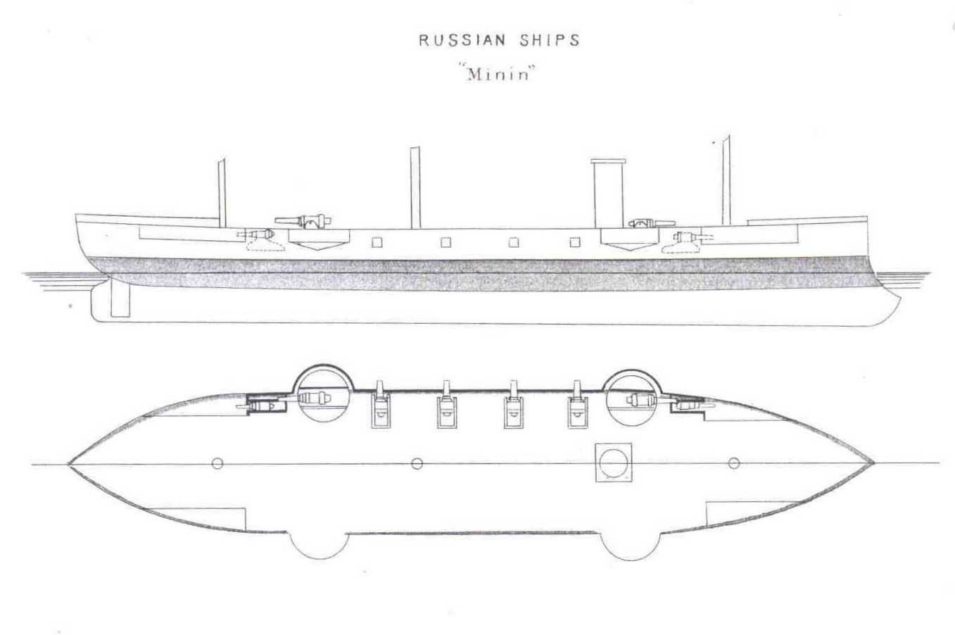 Russian Armoured Cruiser Minin, launched 1869, and serving from 1878. Became minelayer Ladoga in 1909 and was itself mined in 1915.